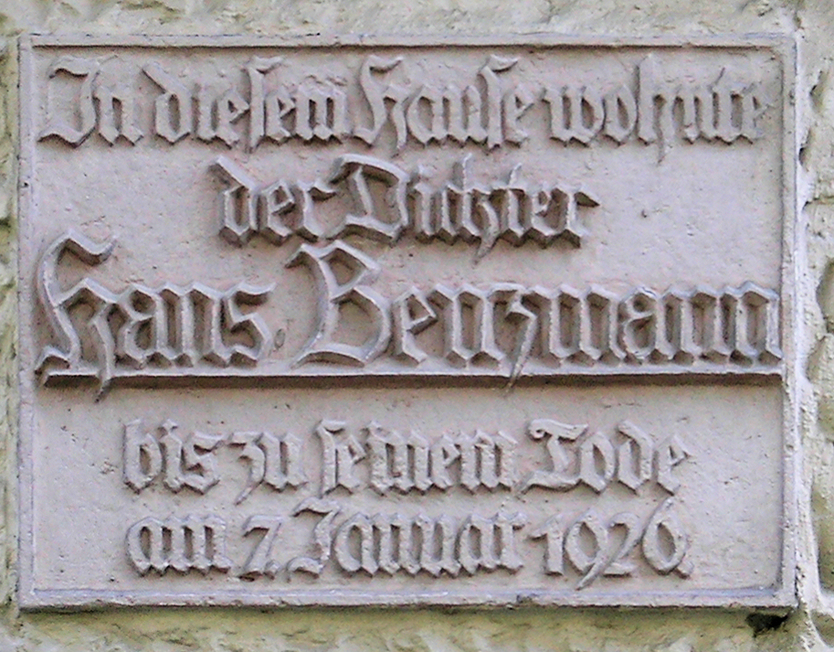 Memorial plaque, Hans Benzmann, Klingsorstraße 27, Berlin-Steglitz, Germany Koordinate:52°27′2″N 13°19′45″E / 52.45056°N 13.32917°E